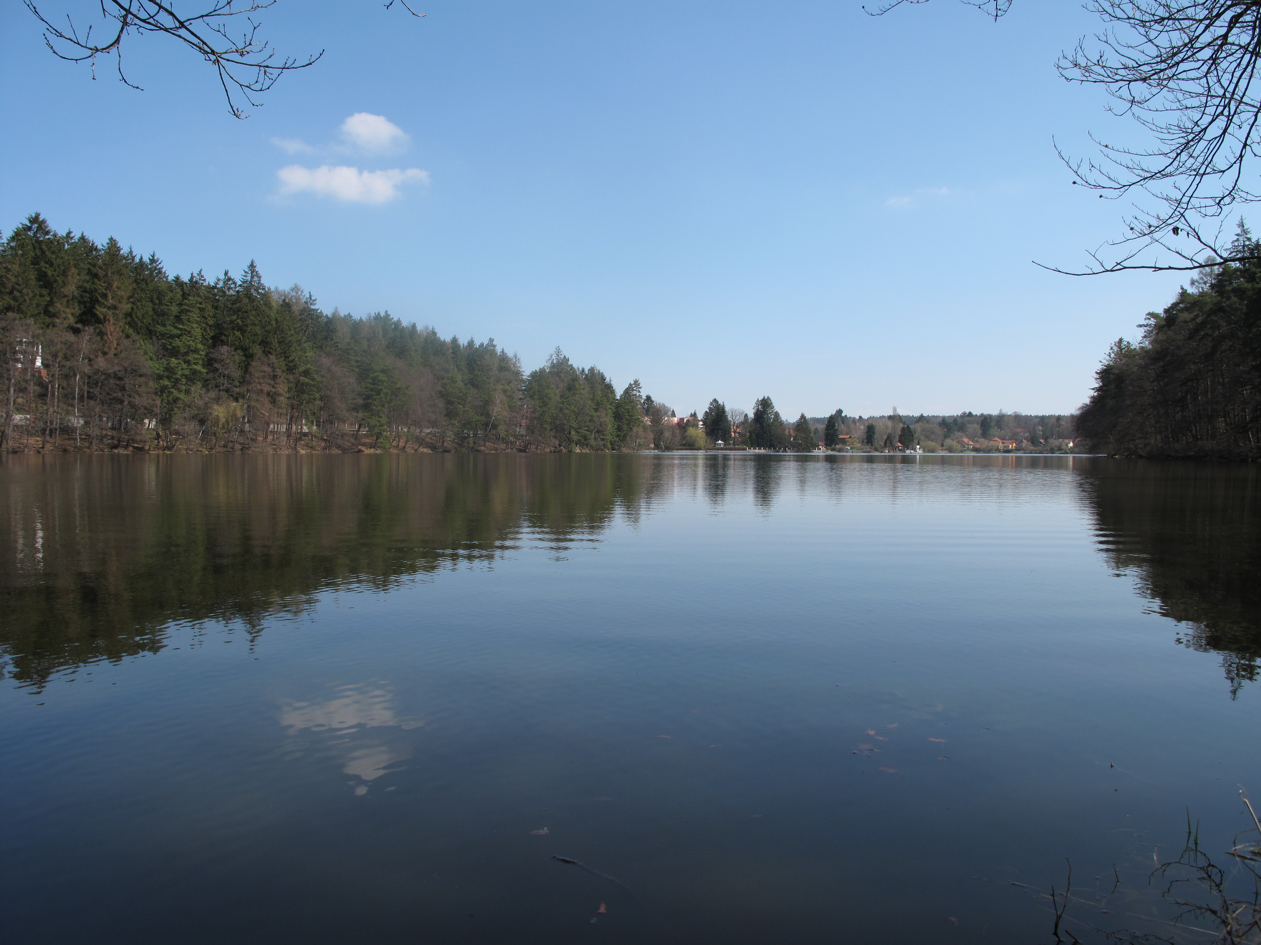 Jevanský Pond from the west, Jevany, Prague-East District, Czech Republic.